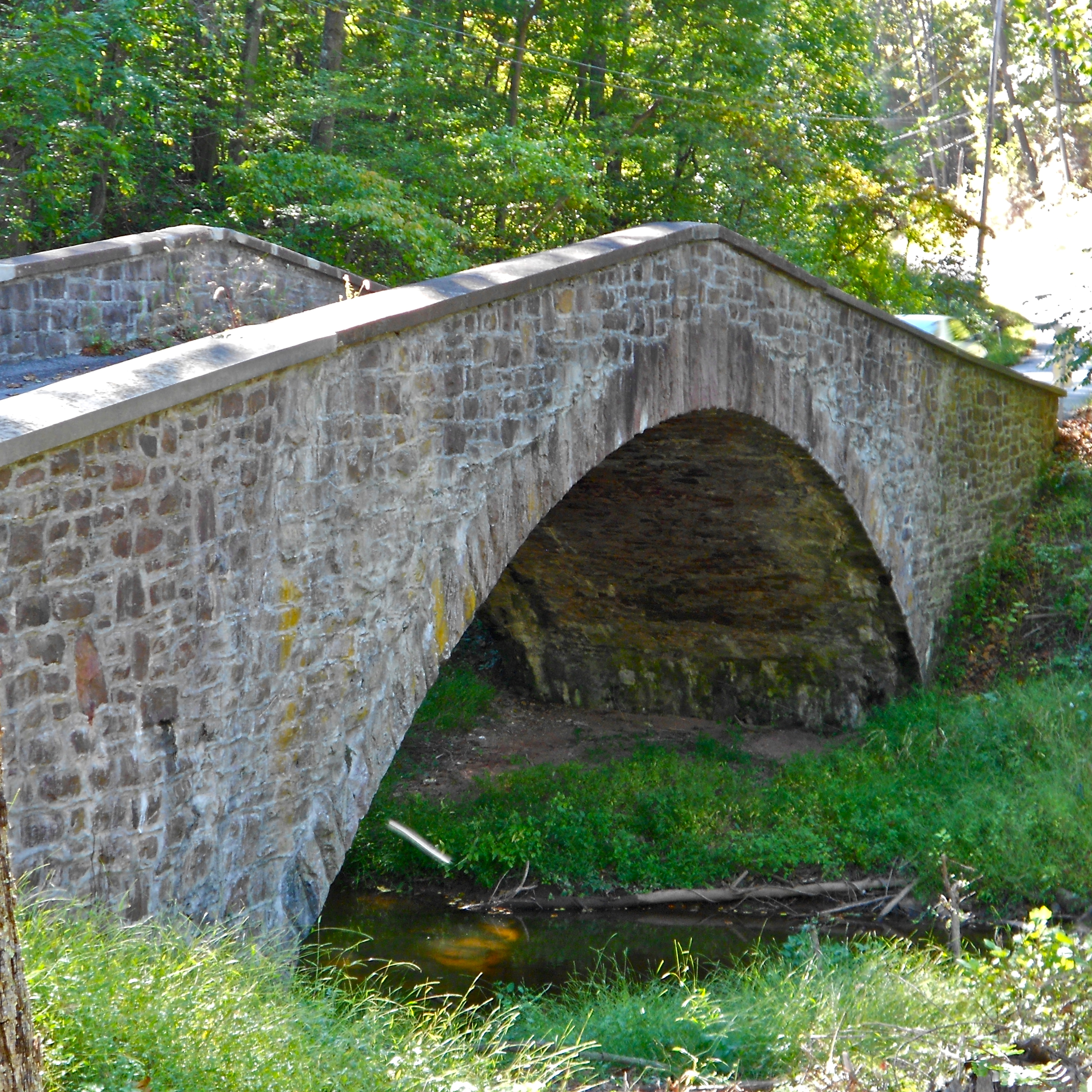 Kise Mill Bridge listed on the NRHP on June 22, 1988. At Legislative Route 66003 over Bennett Run, east of Lewisberry, in Newberry Township, York County, Pennsylvania. It is a very impressive camelback bridge built 1915, one lane. It is also part of the Kise Mill Bridge Historic District, listed in 1980.